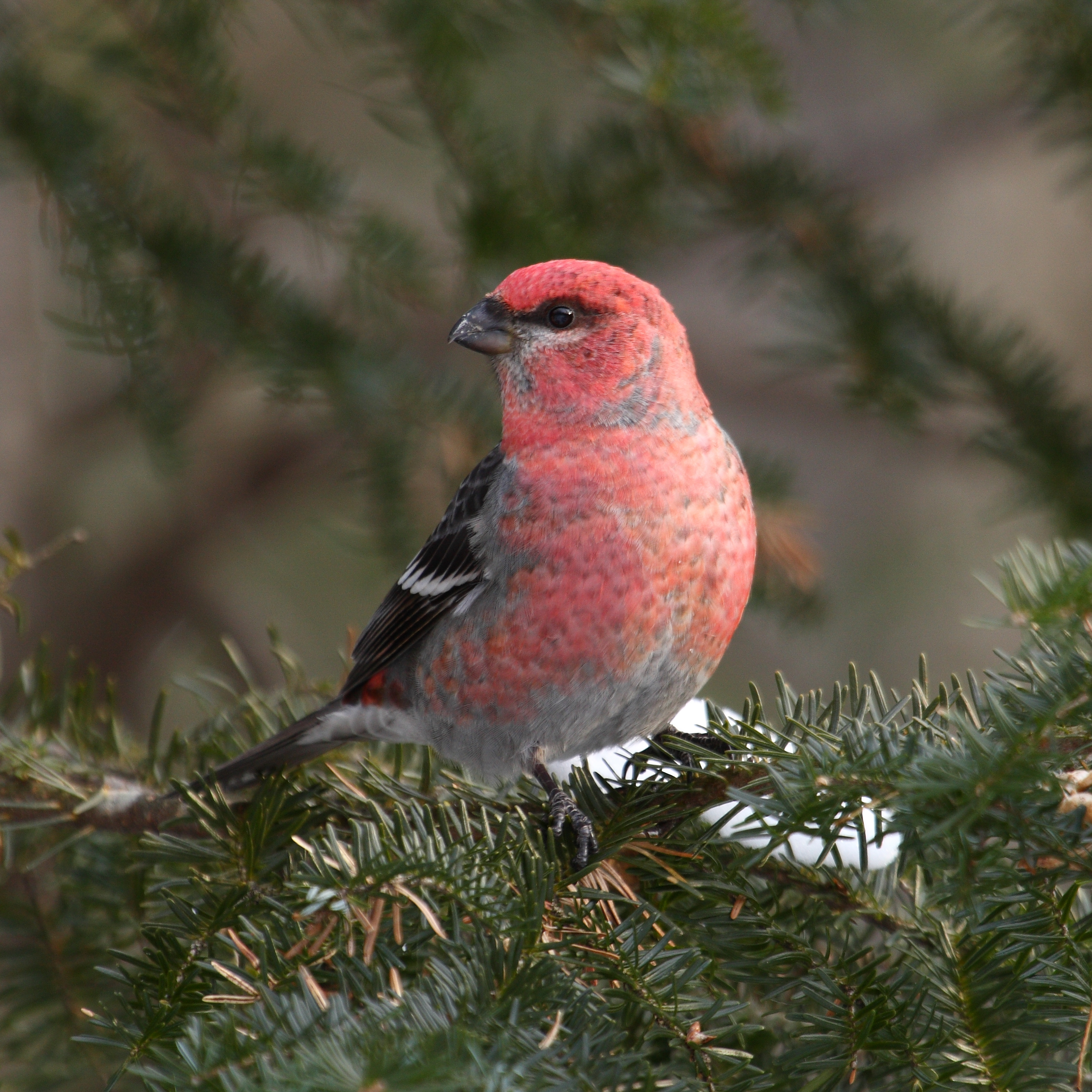 Pine Grosbeak (Pinicola enucleator), male, Cap Tourmente National Wildlife Area, Quebec, Canada